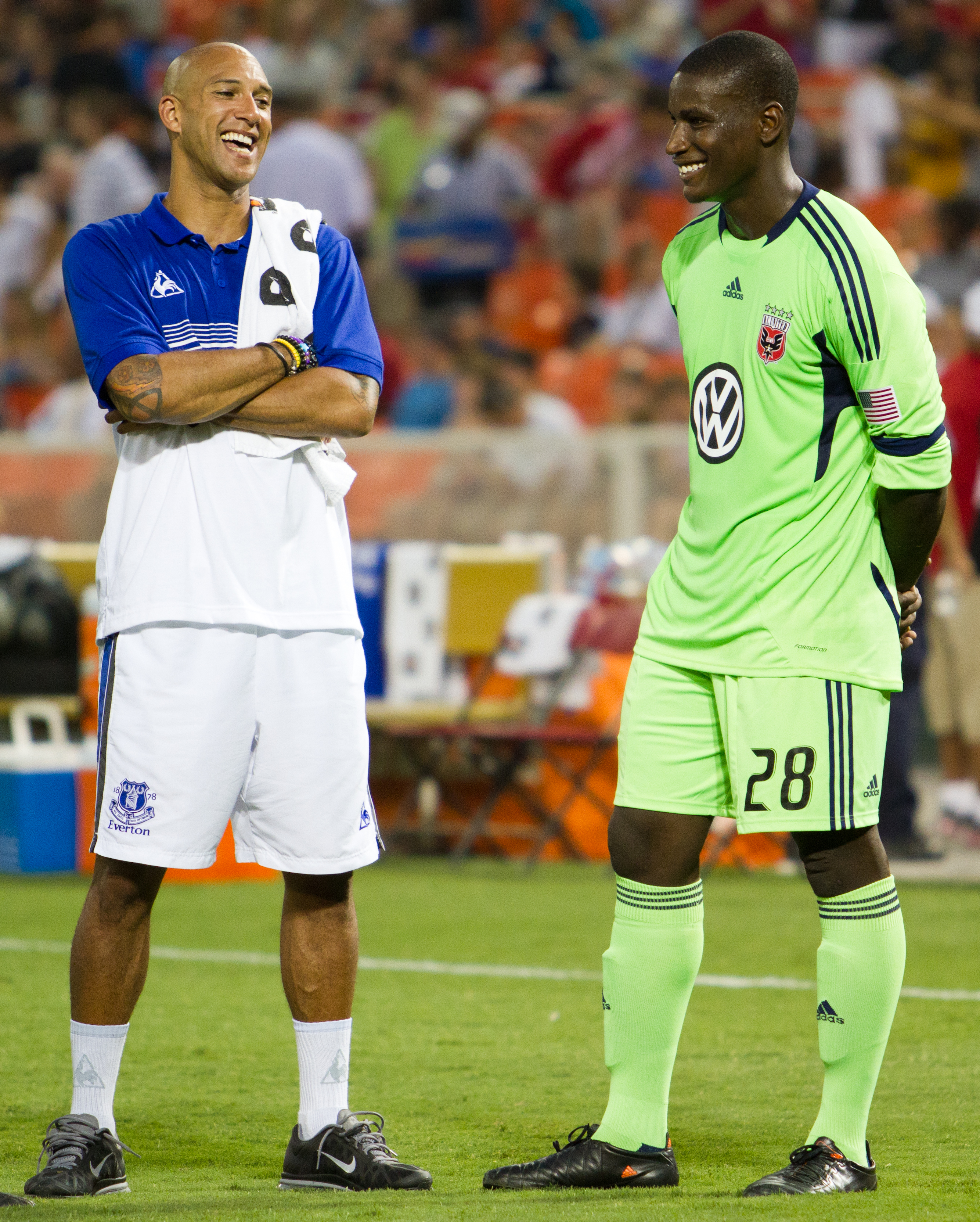 D.C. United goalkeeper, Bill Hamid speaks with Everton F.C. goalkeeper Tim Howard before an international friendly on July 23, 2011 at RFK Stadium in Washington, D.C..